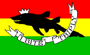 Unofficial flag of Abemama Atoll